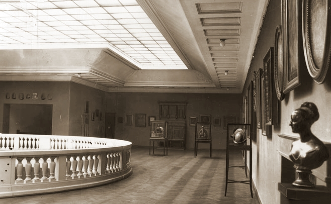 Biblioteka Ordynacji Krasińskich w Warszawie – Hall of non-existing Krasiński Foundation Library in Warsaw, totally destroyed (burned out) by German troops after Warsaw Uprising in October 1944. Photo from 1930.